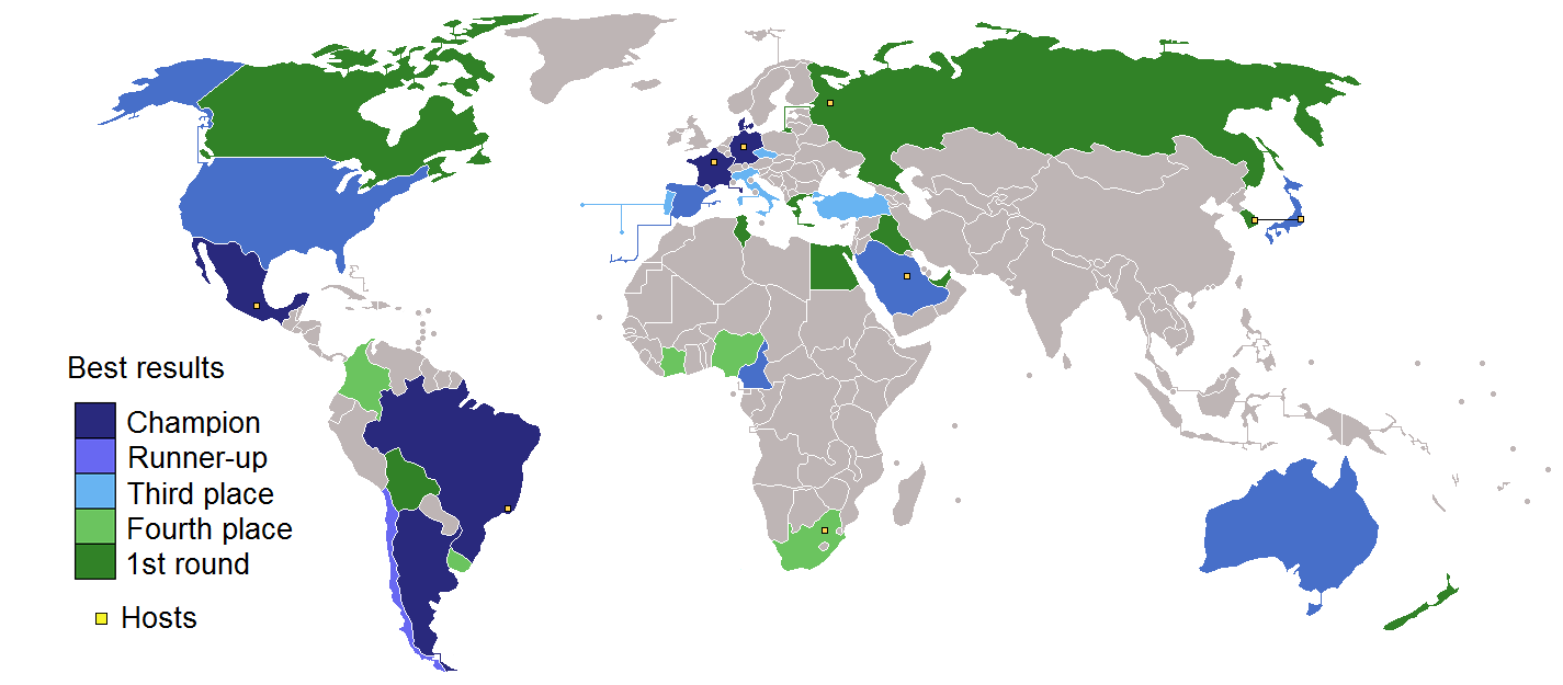 FIFA Confederations Cup showing countries best results (colors as shown) and host countries (yellow dots), as listed on National team appearances in the FIFA Confederations Cup. Note that first round was not held before 1997.